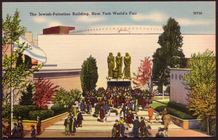 The Jewish-Palestine building. New-York World's Fair 1939. Courtesy of Dr Claude WAINSTAIN Saint-Mandé FRANCE[1]